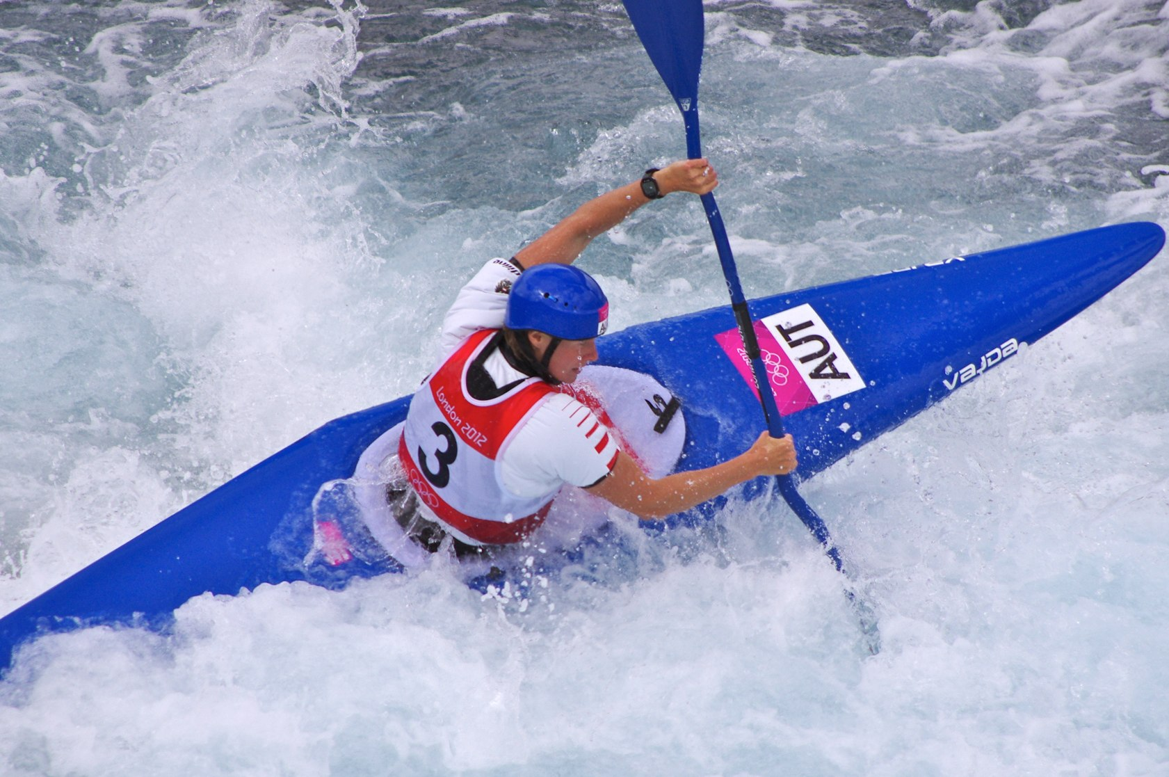 Canoeing at the 2012 Summer Olympics – Women's slalom K-1 Corinna Kuhnle (AUT)